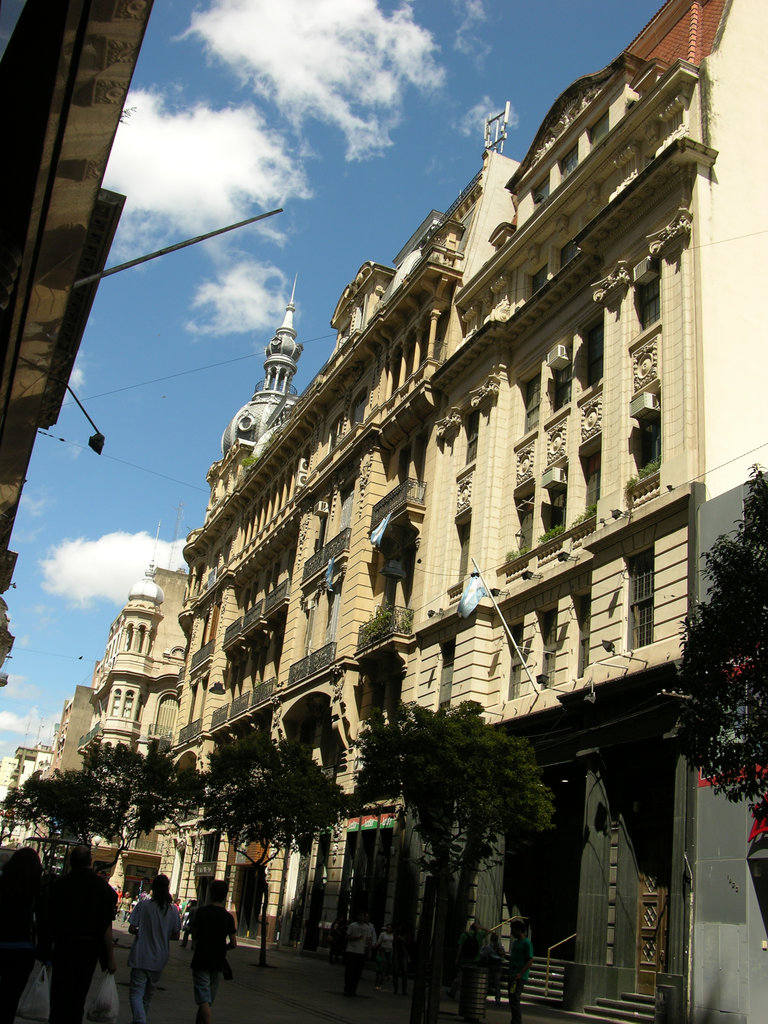 The Compañía de Seguros Generales La Inmobiliaria ("Realty Insurance Company") building. Designed by Juan Antonio Buschiazzo and completed in 1916, this Rosario landmark is part of the 'Three Domes' intersection along the Paseo del Siglo promenade. The neighboring Molinos Fénix building, designed by Hernán Waltz in 1926, is visible at right.